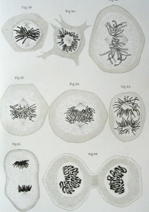 Illustration of mitosis figures, taken from Zellsubstanz, Kern und Zelltheilung (cell substance, nucleus and cell division; 1882) by Walther Flemming (1843-1905), one of the pioneers of cytogenetics